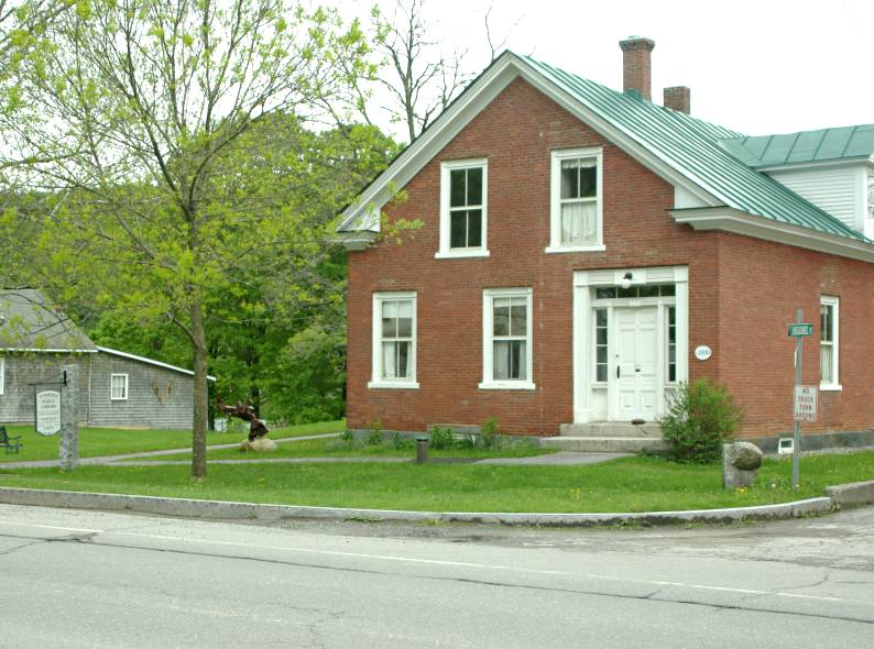 Tunbridge, Vermont, USA Library Source: Photograph taken by M.S.Maguire Copyright: ©2006 M.S.Maguire